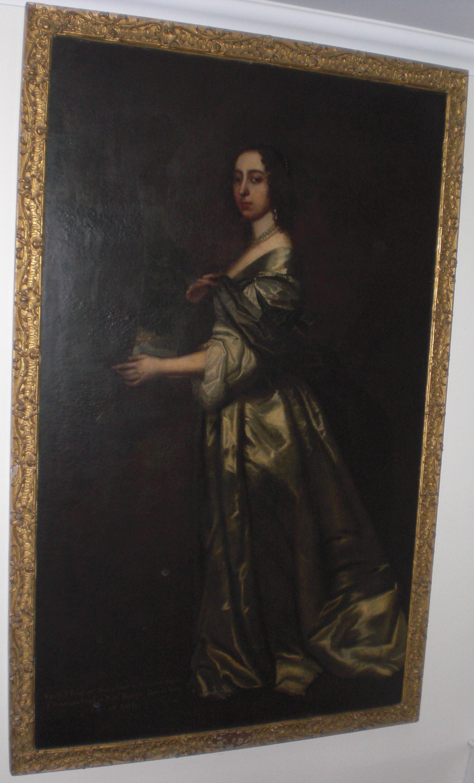 Snap shot (photo by R. de Salis, Jan. 2009) of portrait of Rachel, Countess of Bath.